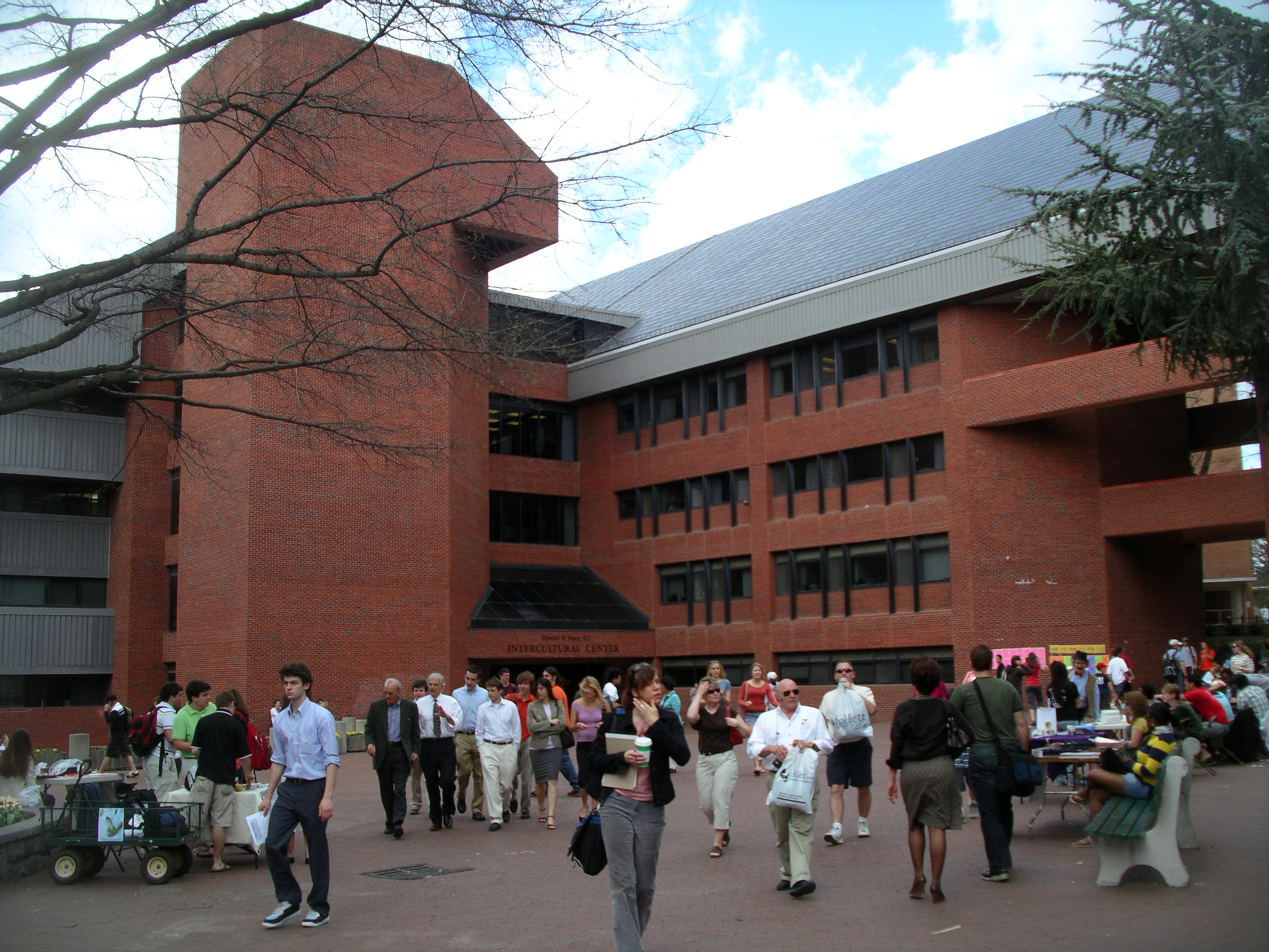 The Edward Bunn, S.J., Intercultural Center above "Red Square"